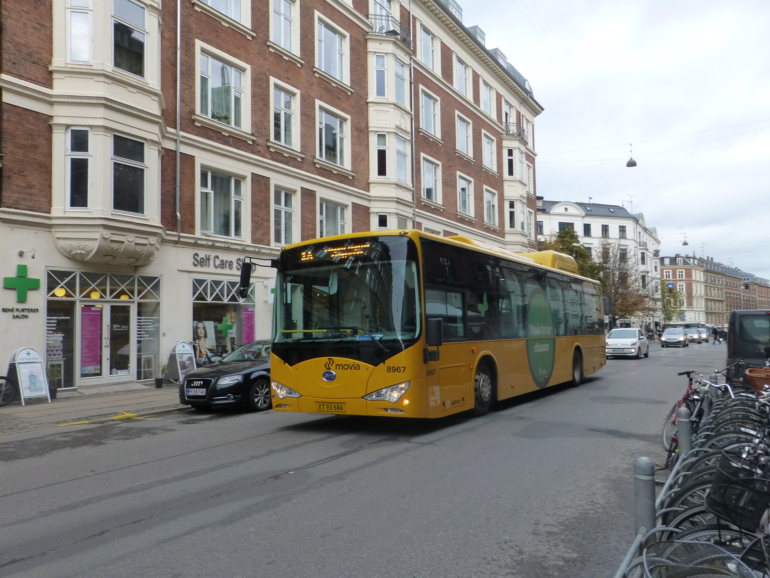 Test of Electric bus on Movia bus line 3A on Nordre Frihavnsgade in Østerbro in Copenhagen.